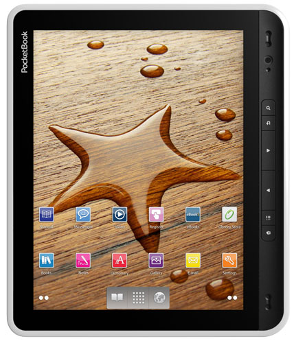 PocketBook A 10""